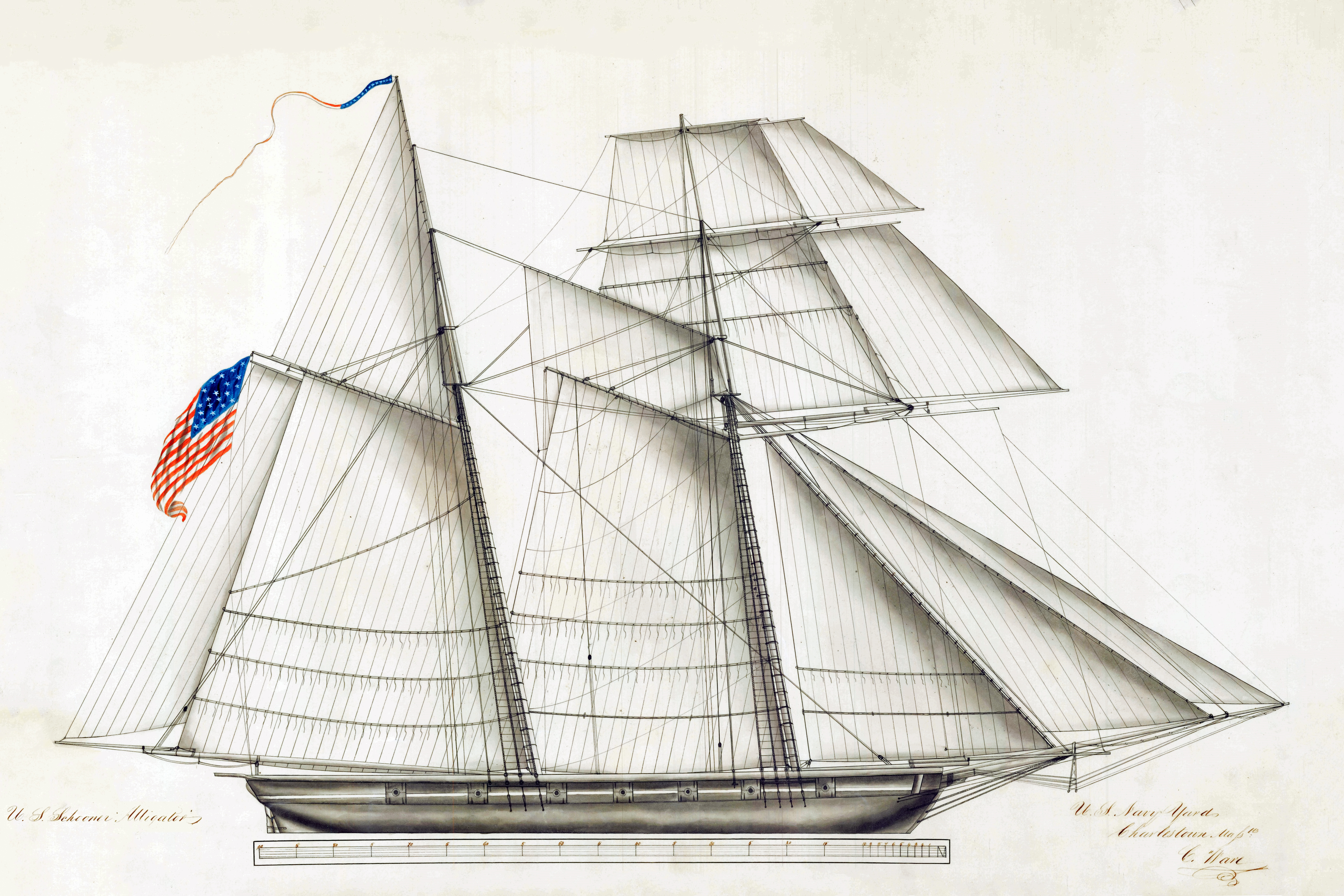 Artist illustration of USS Alligator 1820-1822 taken from NOAA website - - Public Domain